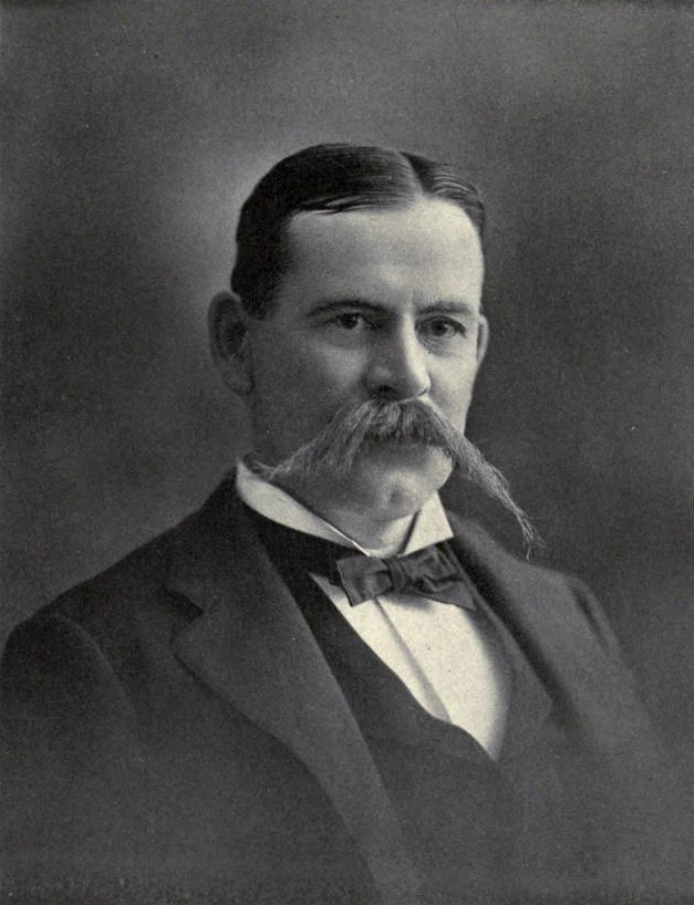 George Waldron Cheyney (September 1, 1853 – August 14, 1903), Arizona Territory's Superintendent of Public Instruction 1889-1893